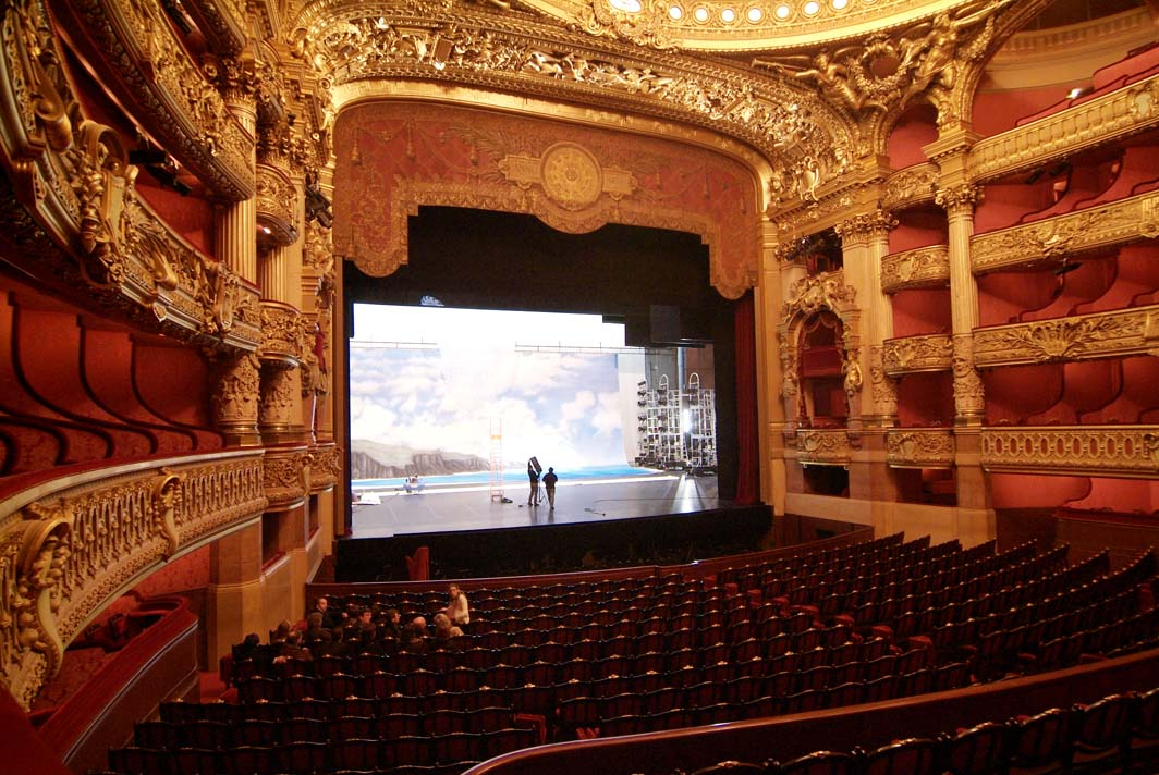 Stage of the Garnier Opera House, Paris, France.